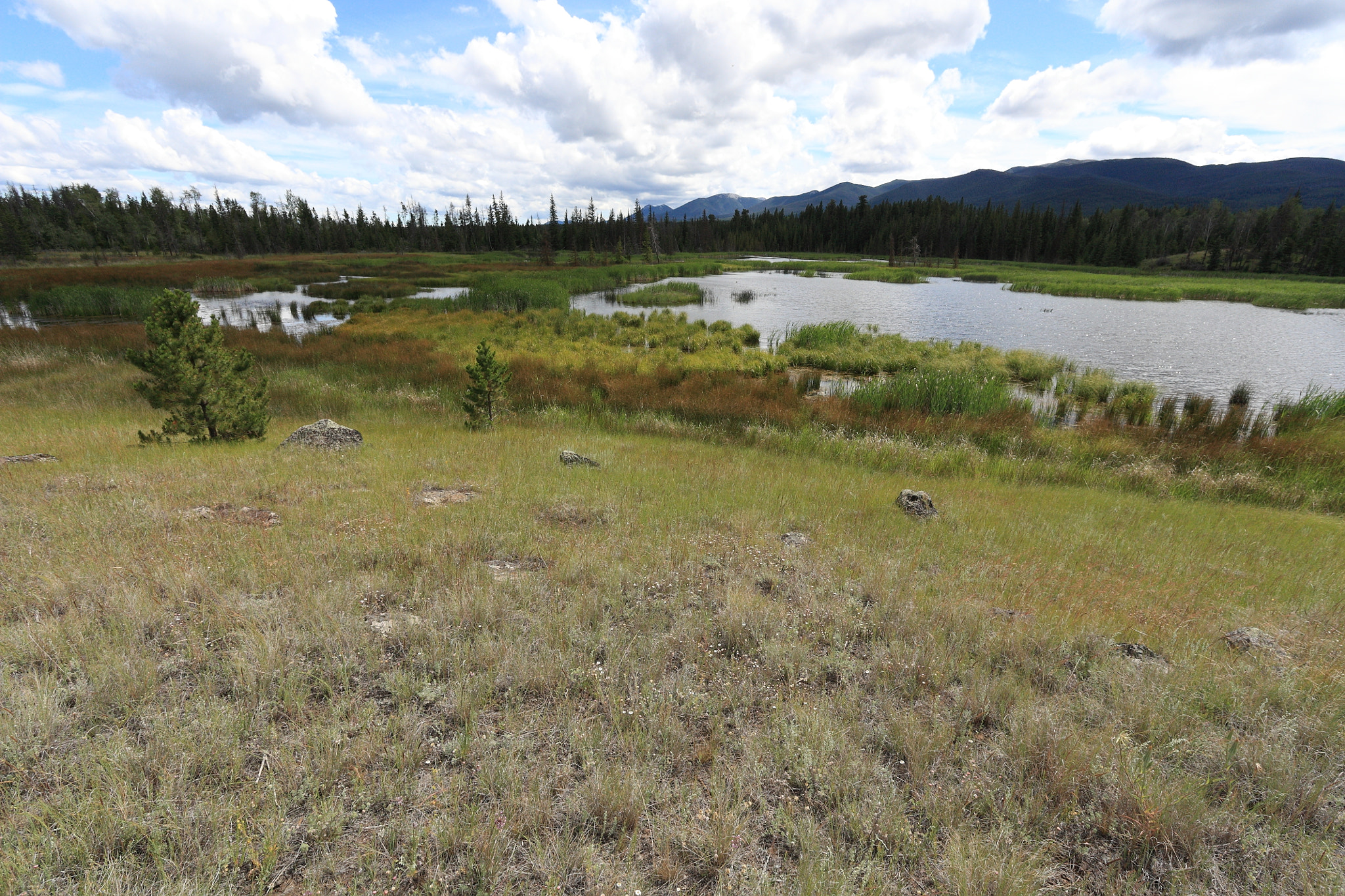 500px provided description: Near Big Bar Lake west of Clinton, BC. [#grass ,#marsh ,#BC ,#British Columbia ,#Cariboo]